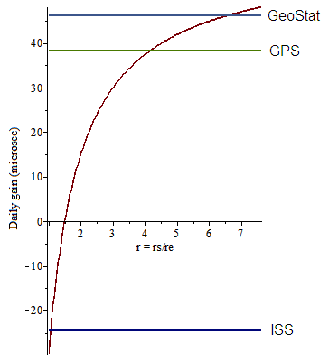 Daily time dilation in microseconds as a function of orbit (assumed circular) radius r = rs/re where rs is satellite orbit radius and re is Earth radius. At r = 1.497 there is no time dilation, i.o.w. the gravitational and velocity approximations cancel. ISS astronauts fly below, whereas GPS and geostationary satellites fly above.